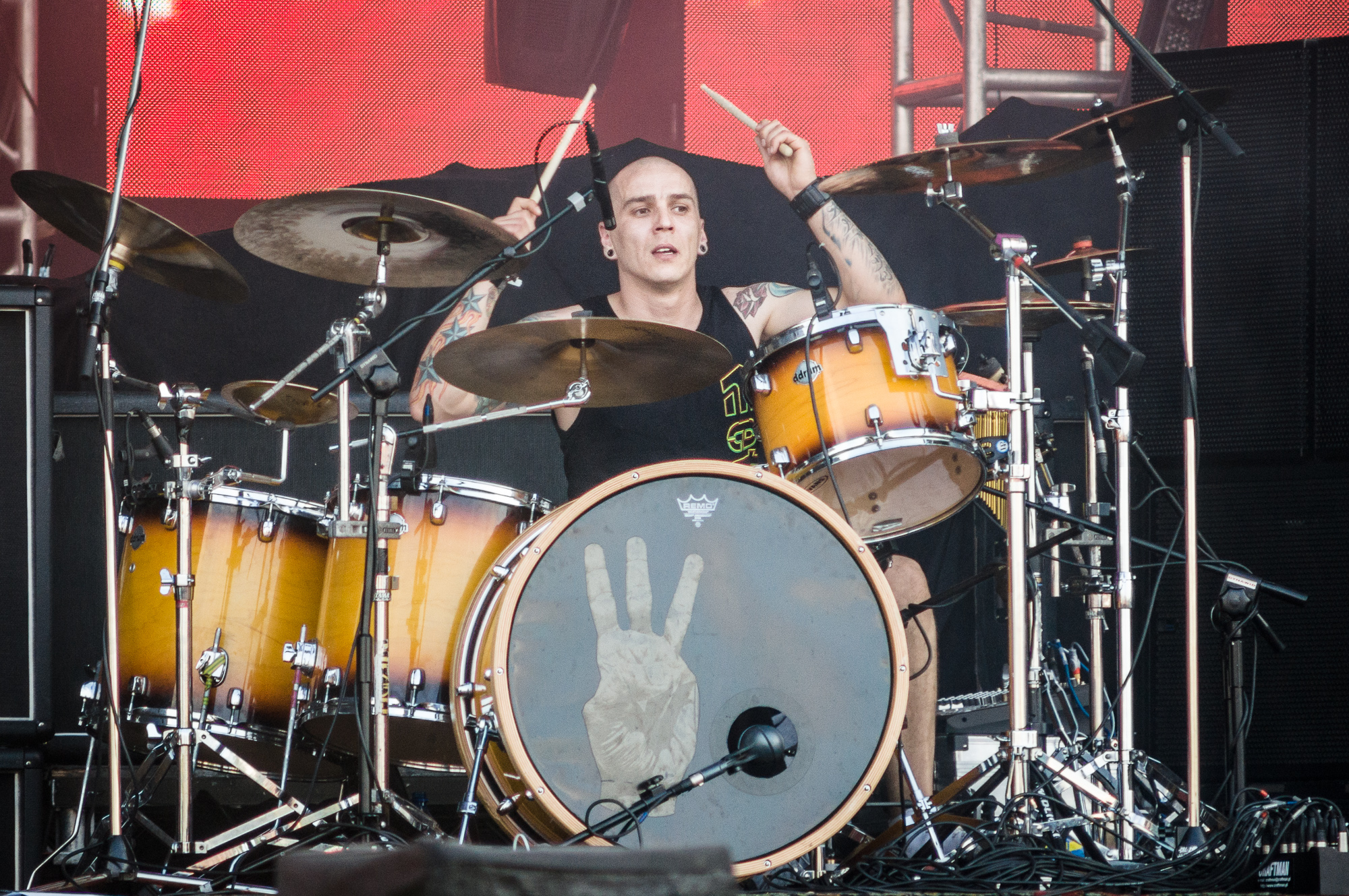 Łukasz Jeleniewski - a drummer of "Lipali" band. Ursynalia 2012, Warsaw, Poland.